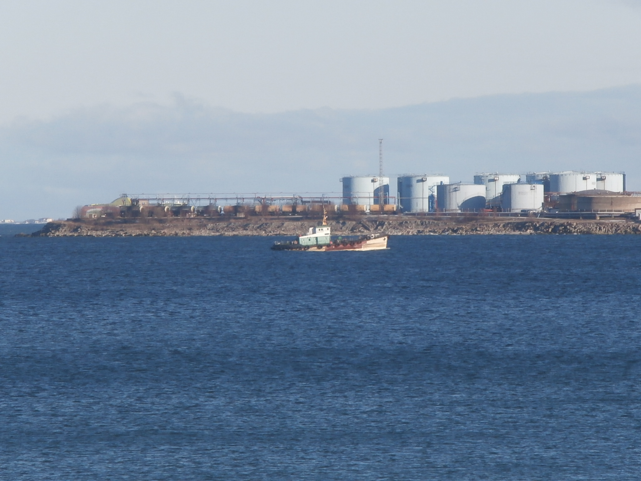 Randal in Kopli Bay Tallinn 13 February 2016 (Superstar in the background)